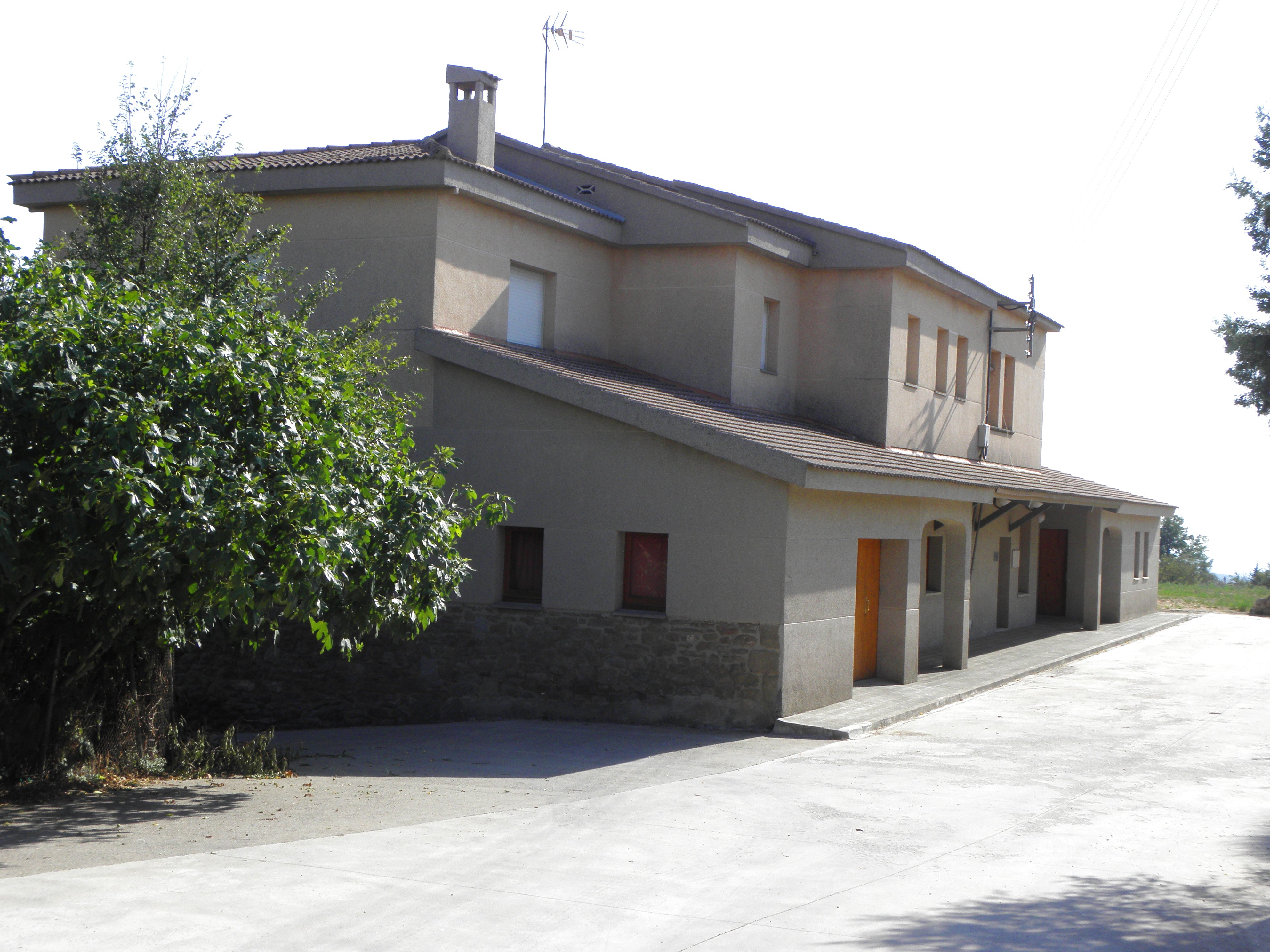 Ajuntament del municipi de Pinell de Solsonès, al poble de Sant Climenç.